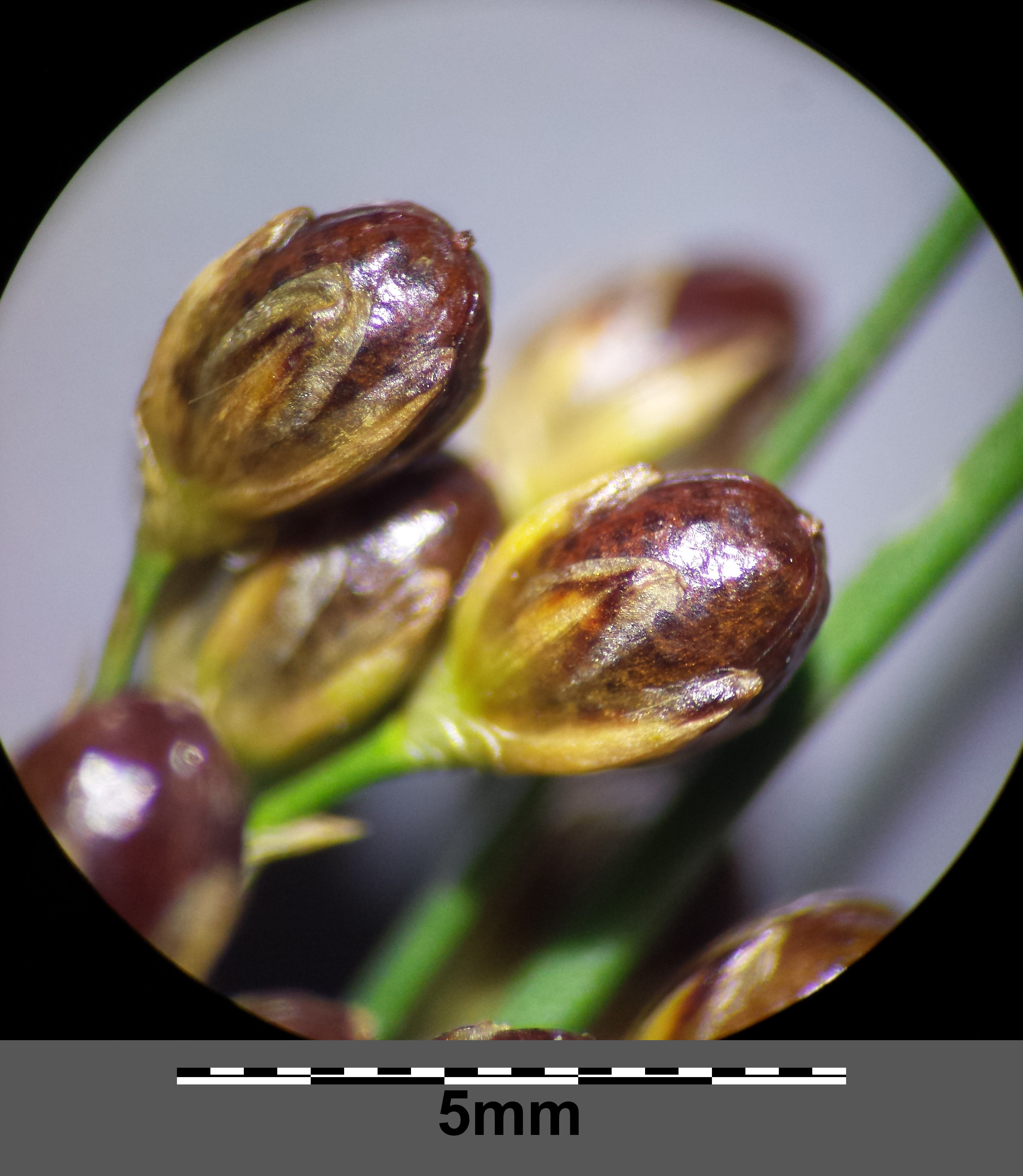 Infructescence Taxonym: Juncus compressus ss Fischer et al. EfÖLS 2008 ISBN 978-3-85474-187-9 Location: Donaupark, Vienna-Donaustadt - ca. 160 m a.s.l. Habitat: shore of a pond